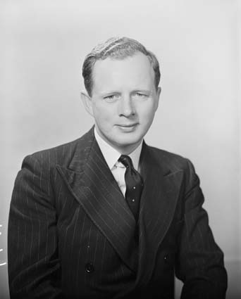 Peter Howson, Liberal Party Member for the House of Representatives (Australia).